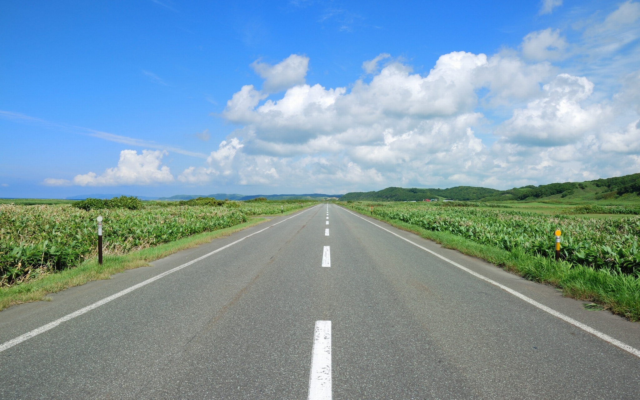 The Hokkaido Prefectural Road Route 106 in Wakkanai City